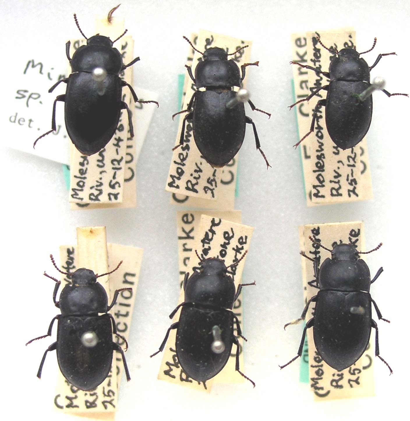 Mimopeus parvus specimens held at Auckland War Memorial Museum Image licensed under CC BY 4.0